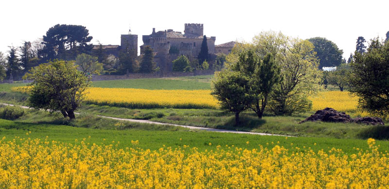 Castle / Village of Murs (84220), France